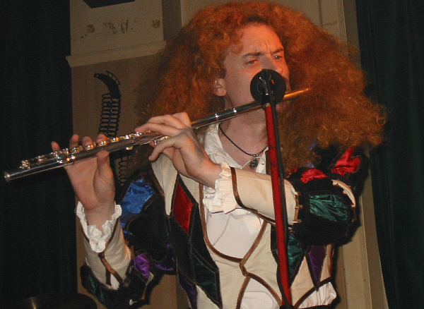 Author: John Williams Source: Canon Digital Ixus 300 Date: Nov 2001 (approx) Uploaded from personal photo collection